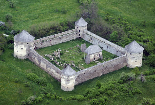 Bzovík Castle, Slovakia, aerial photography